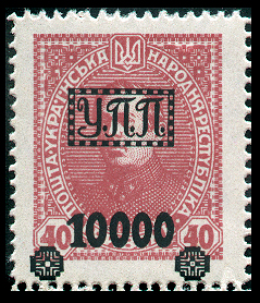 Stamp of Ukrainian Field Post, 1922